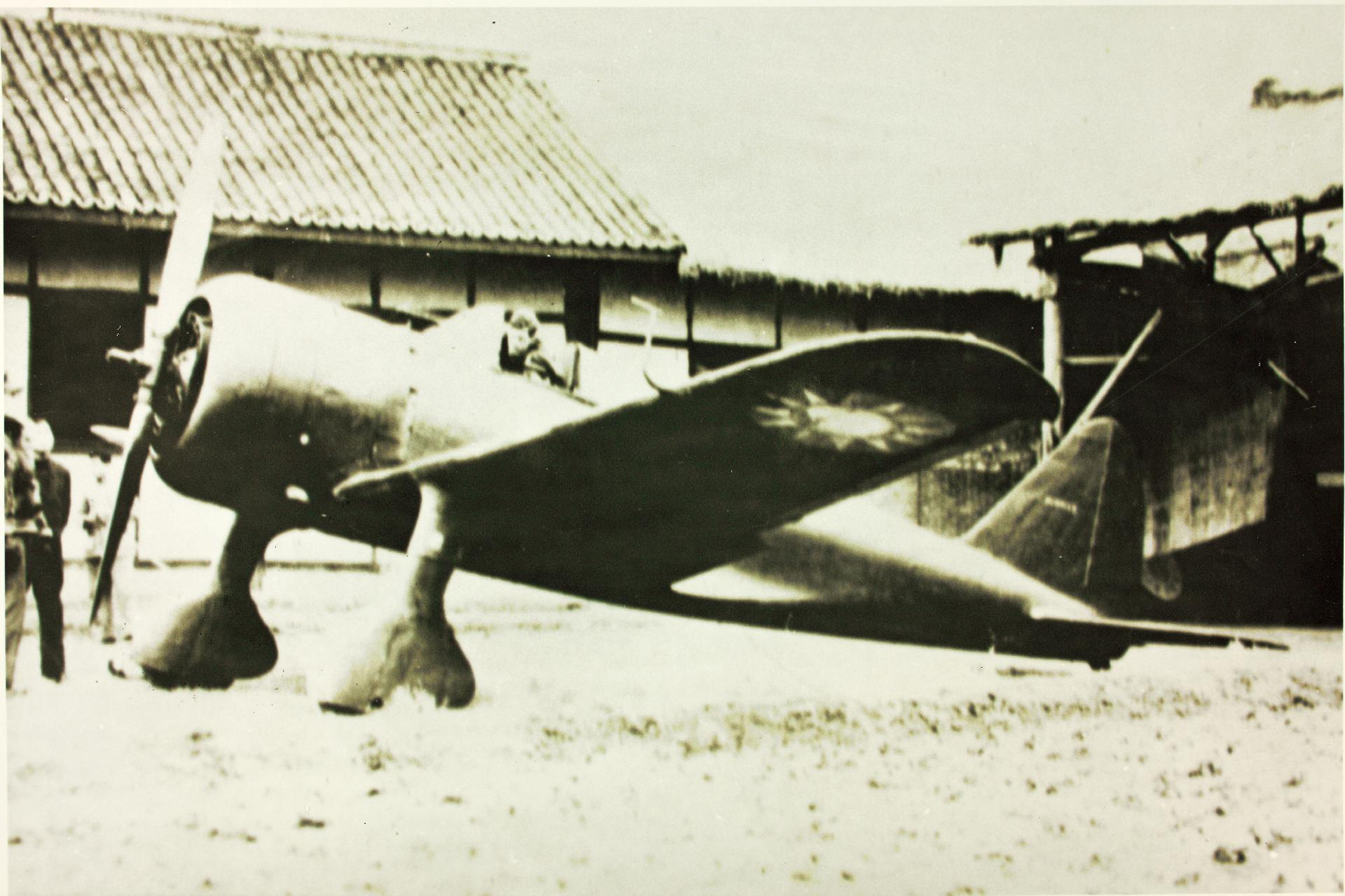 Nakajima Ki-27 "Nate" fighter, taken on charge as war booty by the Chinese Nationalist Air Force